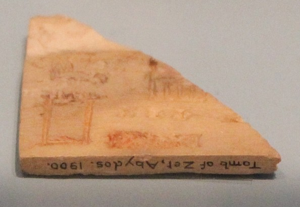 King Djet (Ashmolean). Abydos, Umm el-Qaab, Tomb Z. Petrie, W.M.F. Royal Tombs (1900). pl. XI.1, XIII.3